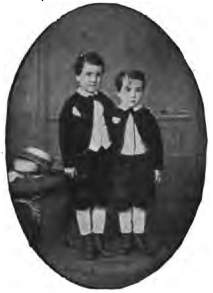 The English music hall comedian Albert Chevalier and his younger brother Auguste, (better known as Charles Ingle) in the 1870s